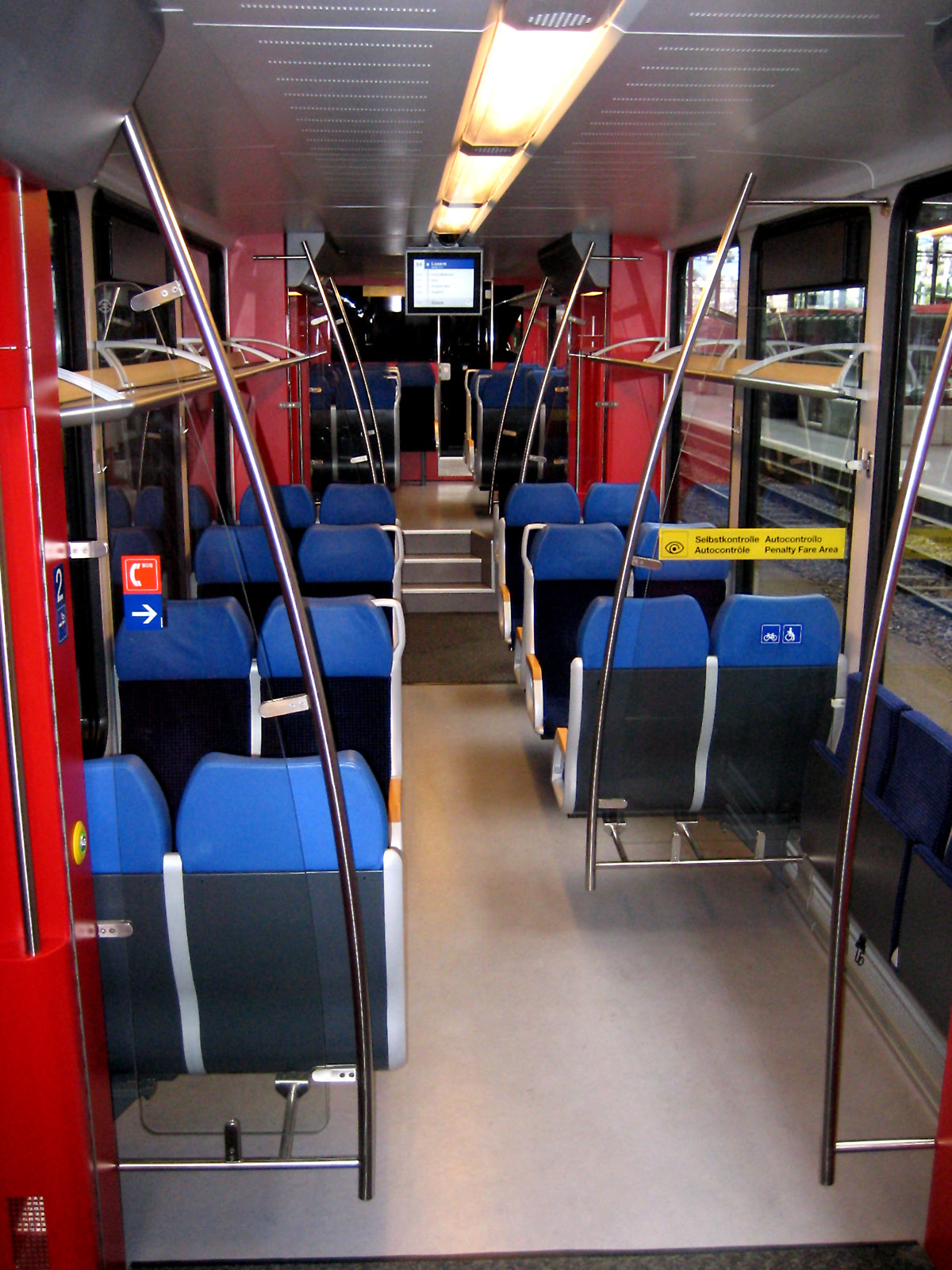 Stadler Rail SPATZ, interior, custom made train for Zentralbahn